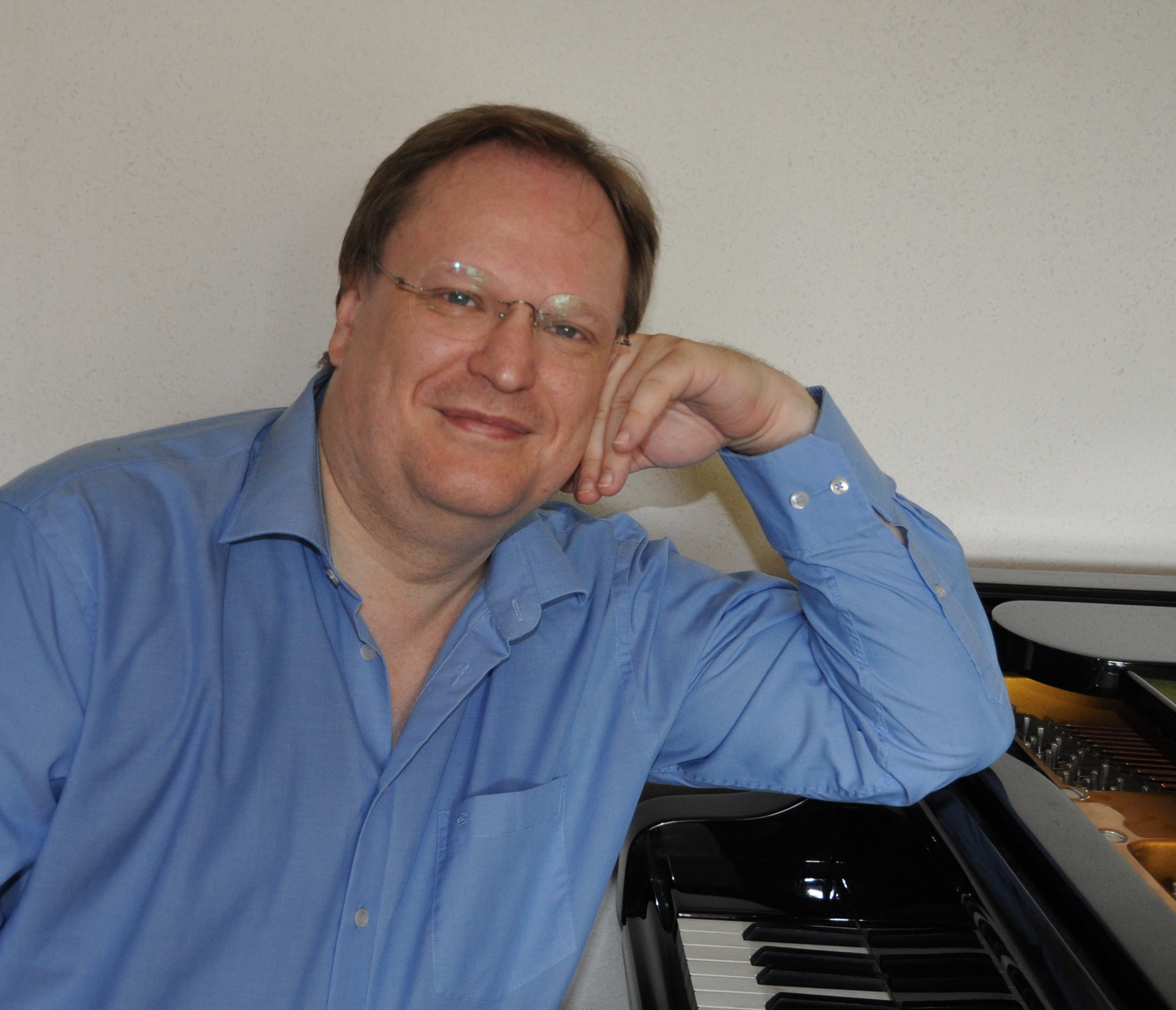 Präsident of the Staatliche Hochschule für Musik und Darstellende Kunst Mannheim